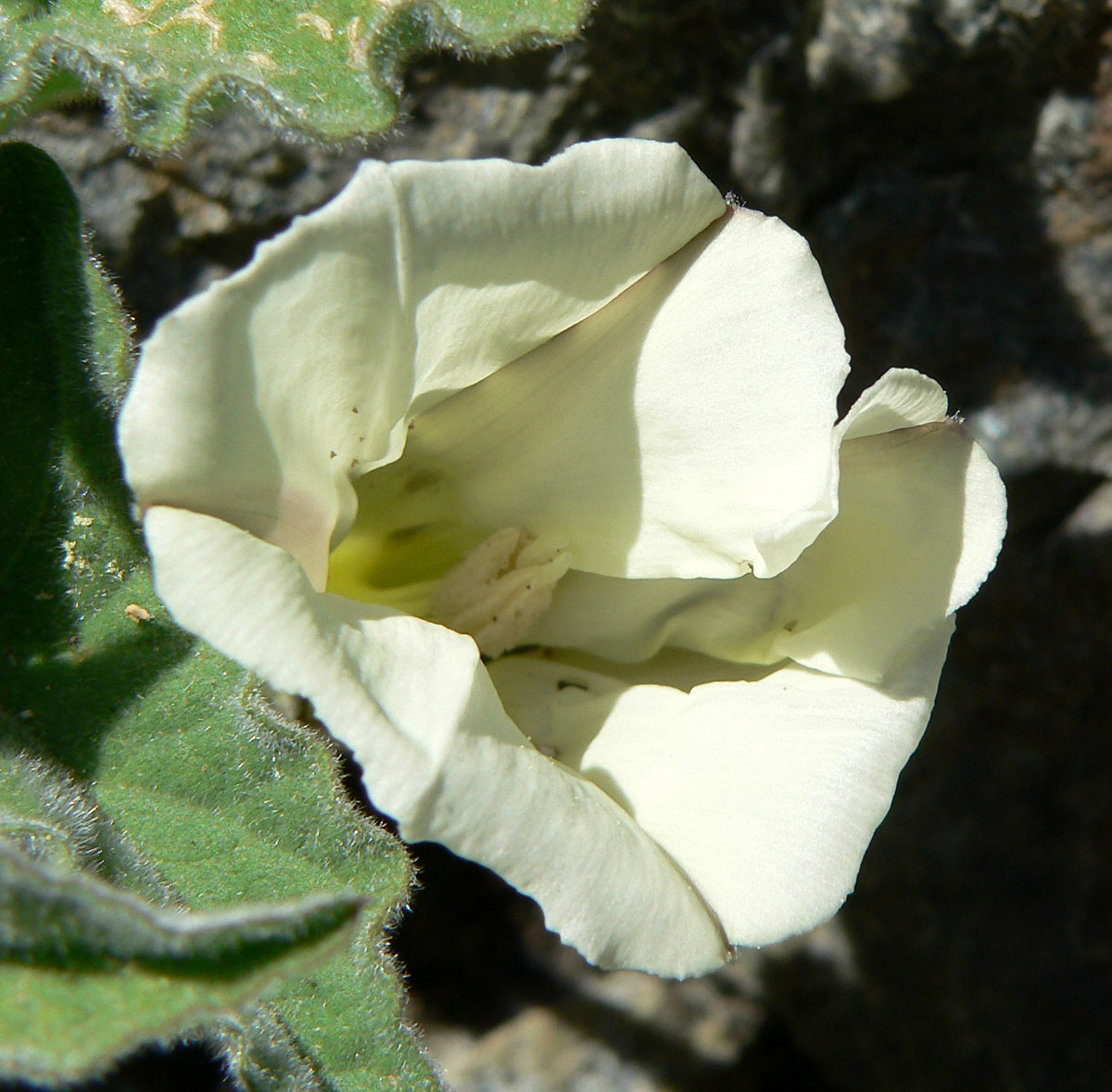 Calystegia collina ssp. oxyphylla at the University of California Botanical Garden, Berkeley, California